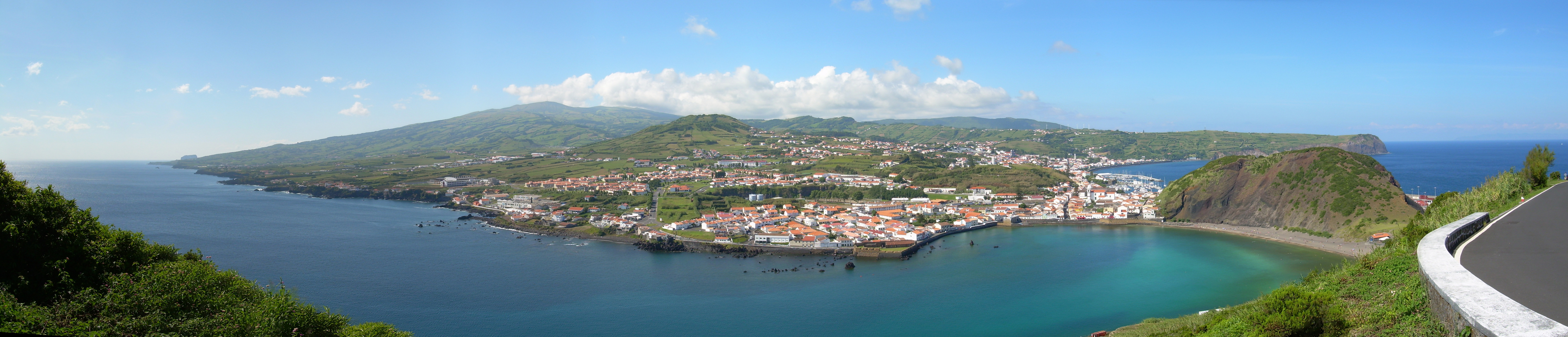 Faial Island, Azores, seen from Monte da Guia